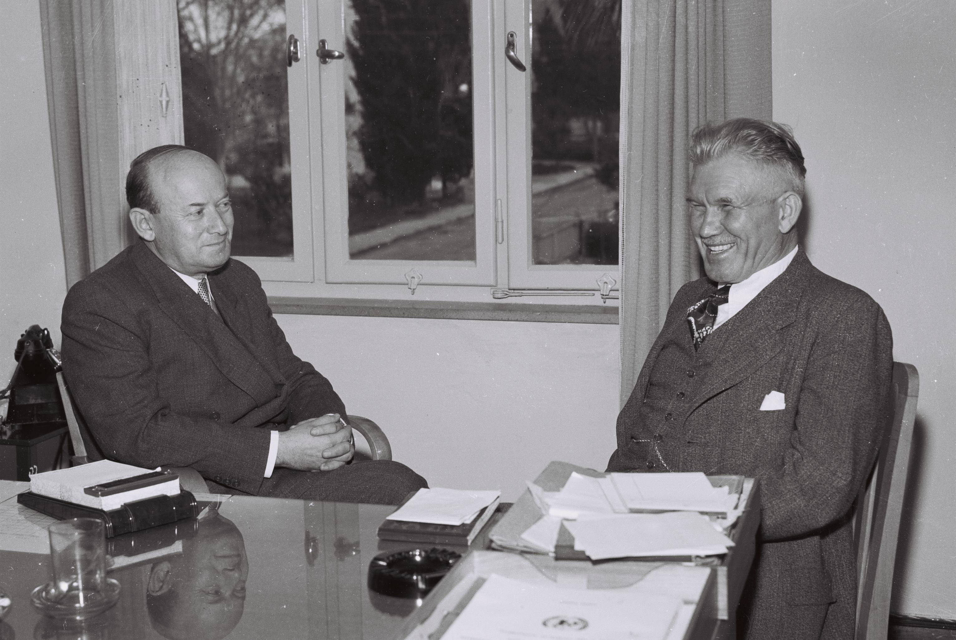 DR. W.C. LOWDERMILK (R) AND CHAIM HALPERIN, DIR.- GEN., MIN. OF AGRICULTURE, IN CONVERSATION ON QUESTION OF SOIL PRESERVATION AND PREVENTION OF EROSION.